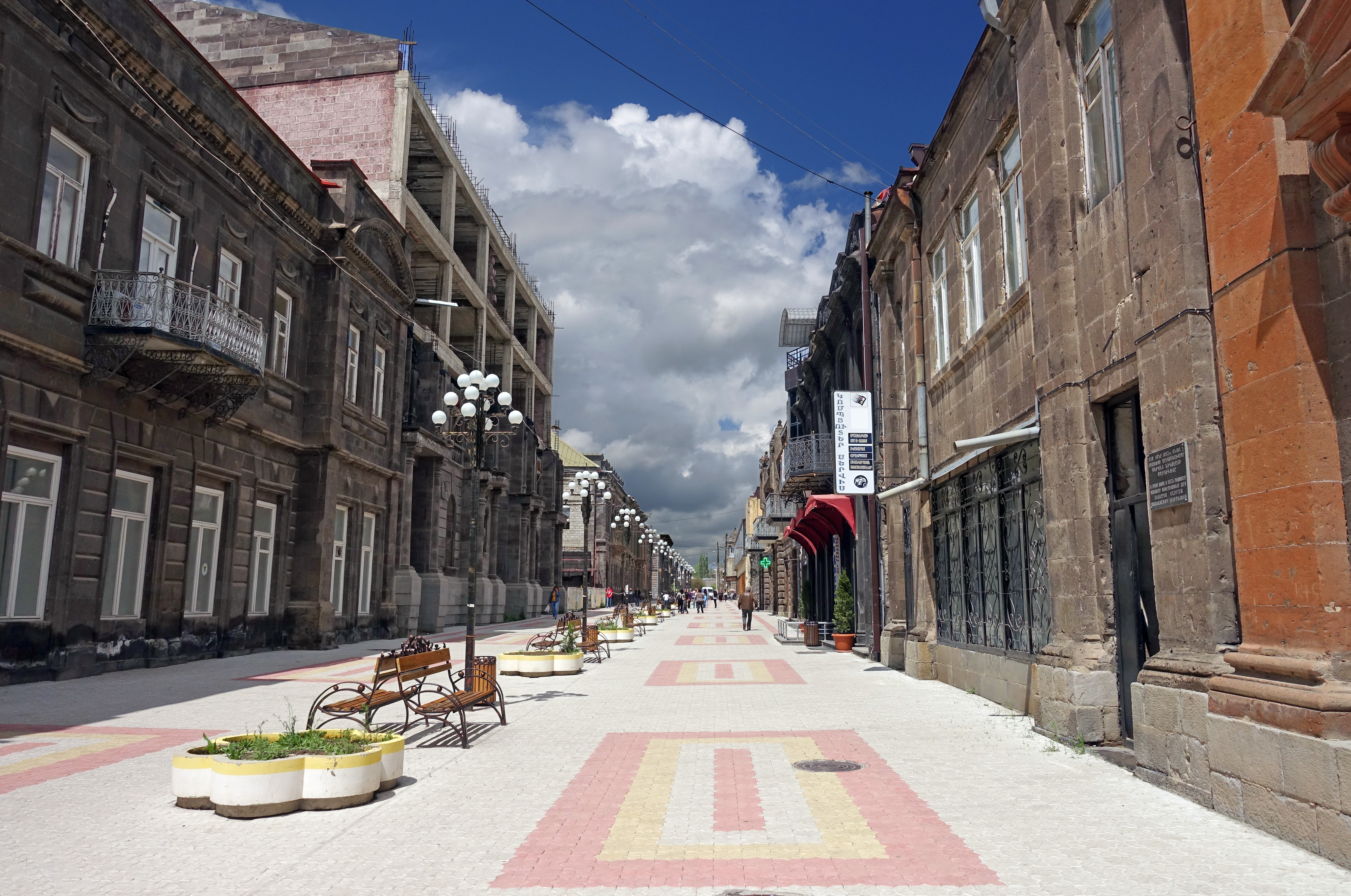 Gyumri, Armenia.